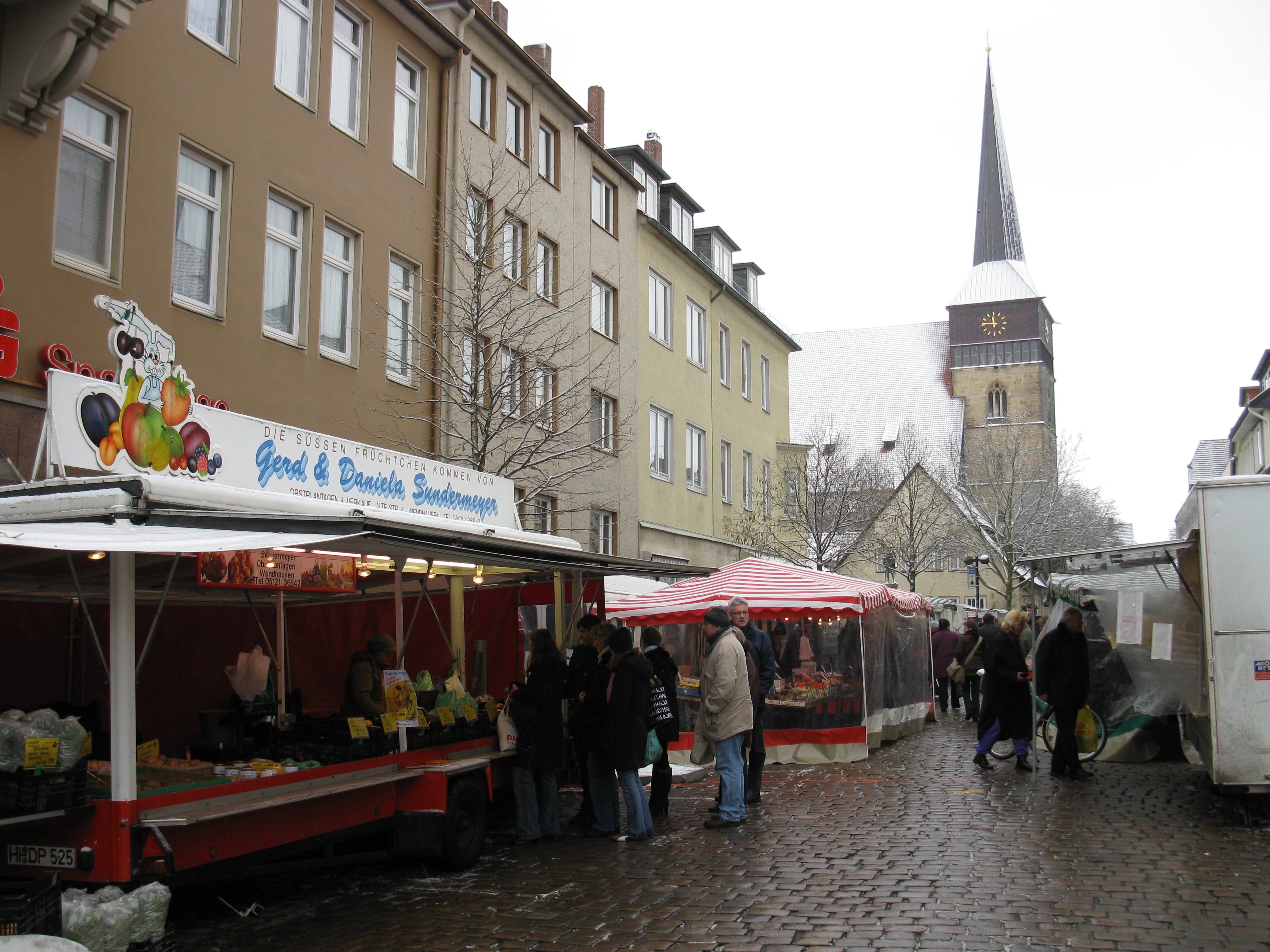 Neustädter Markt, Saint Lamberti Church, Hildesheim, Germany